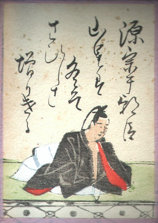 A portrait of Minamoto no Muneyuki Ason; illustration from an uta-garuta playing card for Hyakunin Isshu, created in the Edo period.